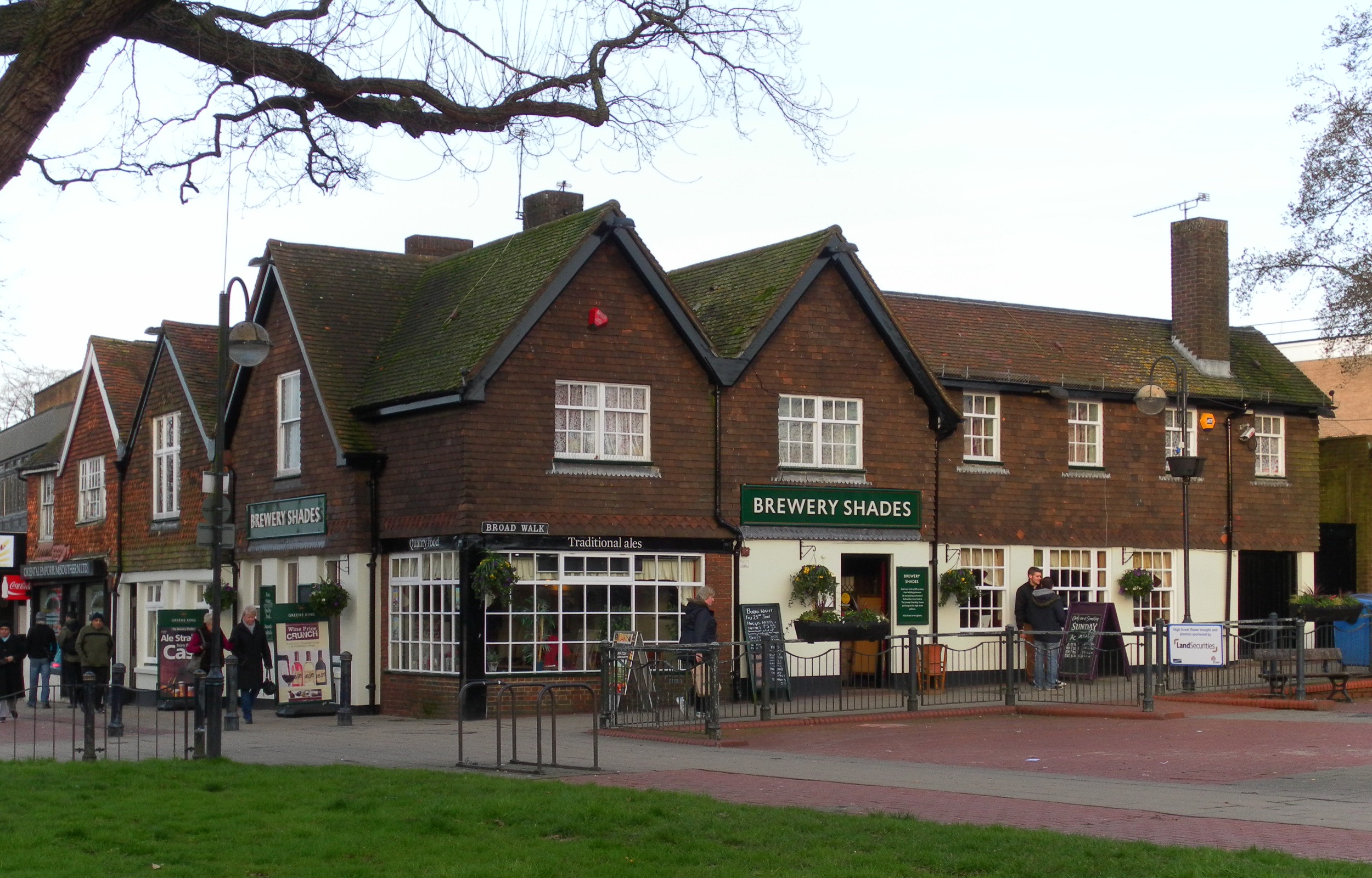 The Brewery Shades, High Street, Crawley, West Sussex, England. Listed at Grade II by English Heritage (IoE Code 363349)